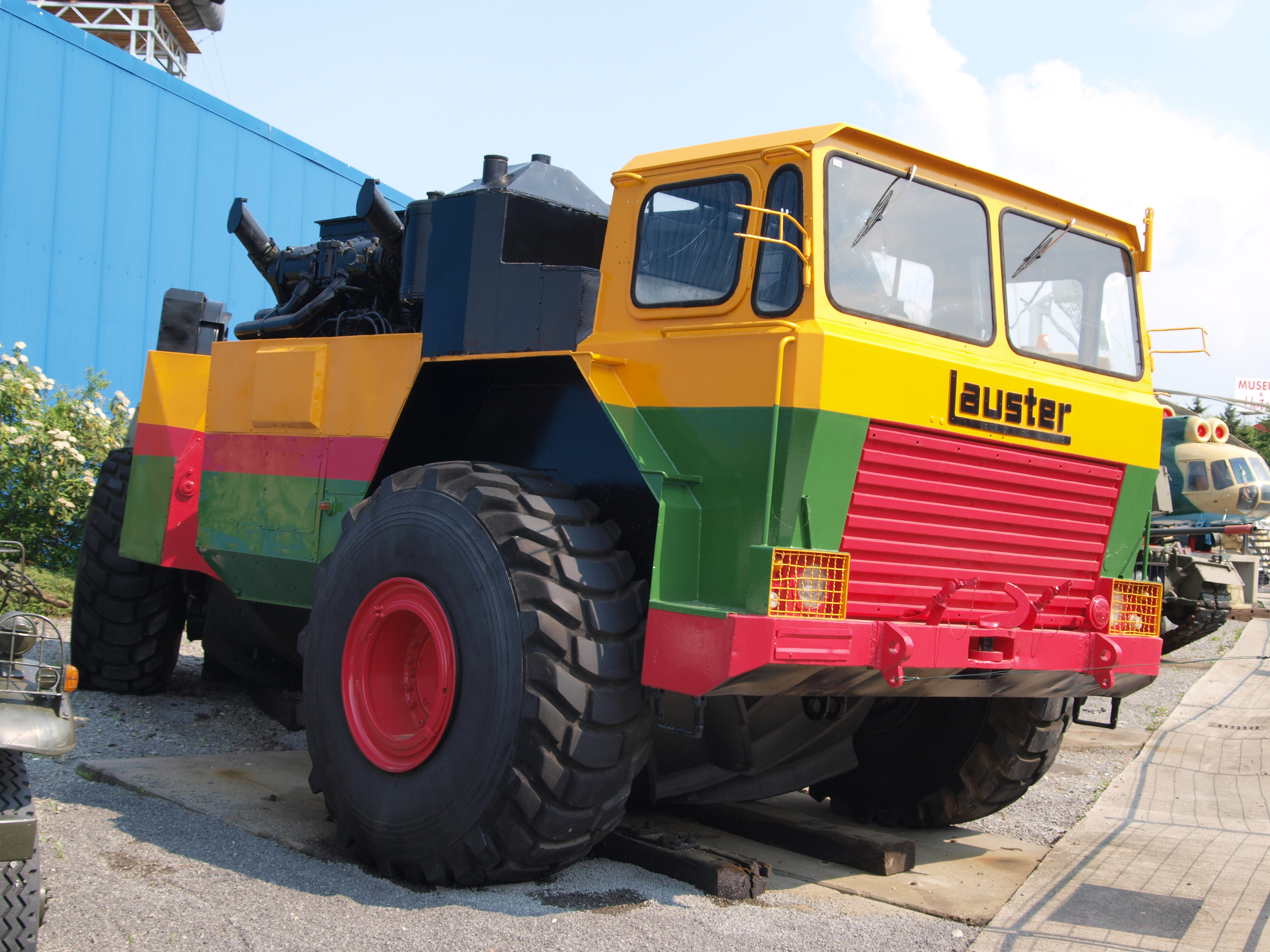 Lauster FM at Auto und Technik Museum Sinsheim